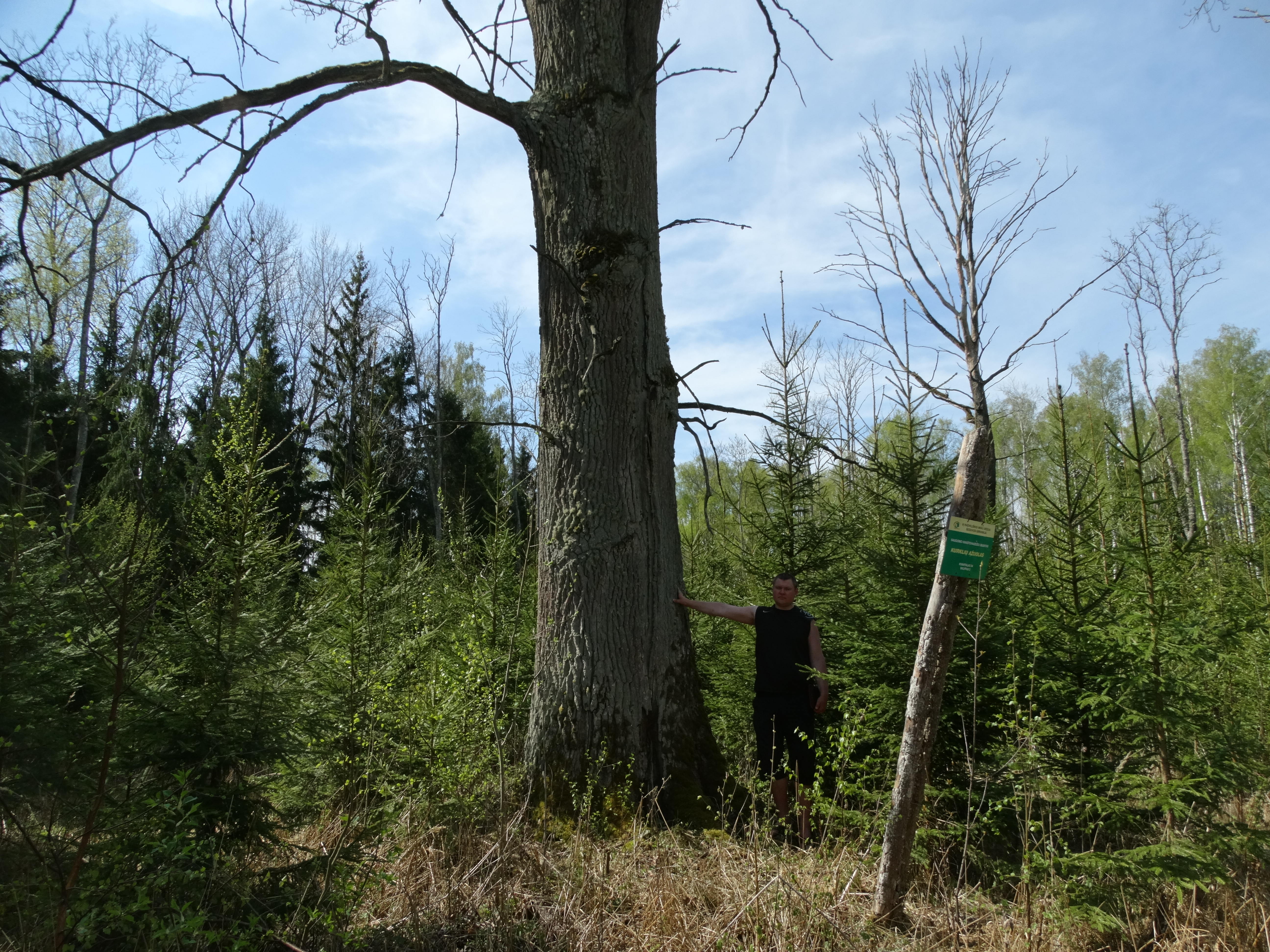 Kurkliai Oak, Radviliškis District, Lithuania